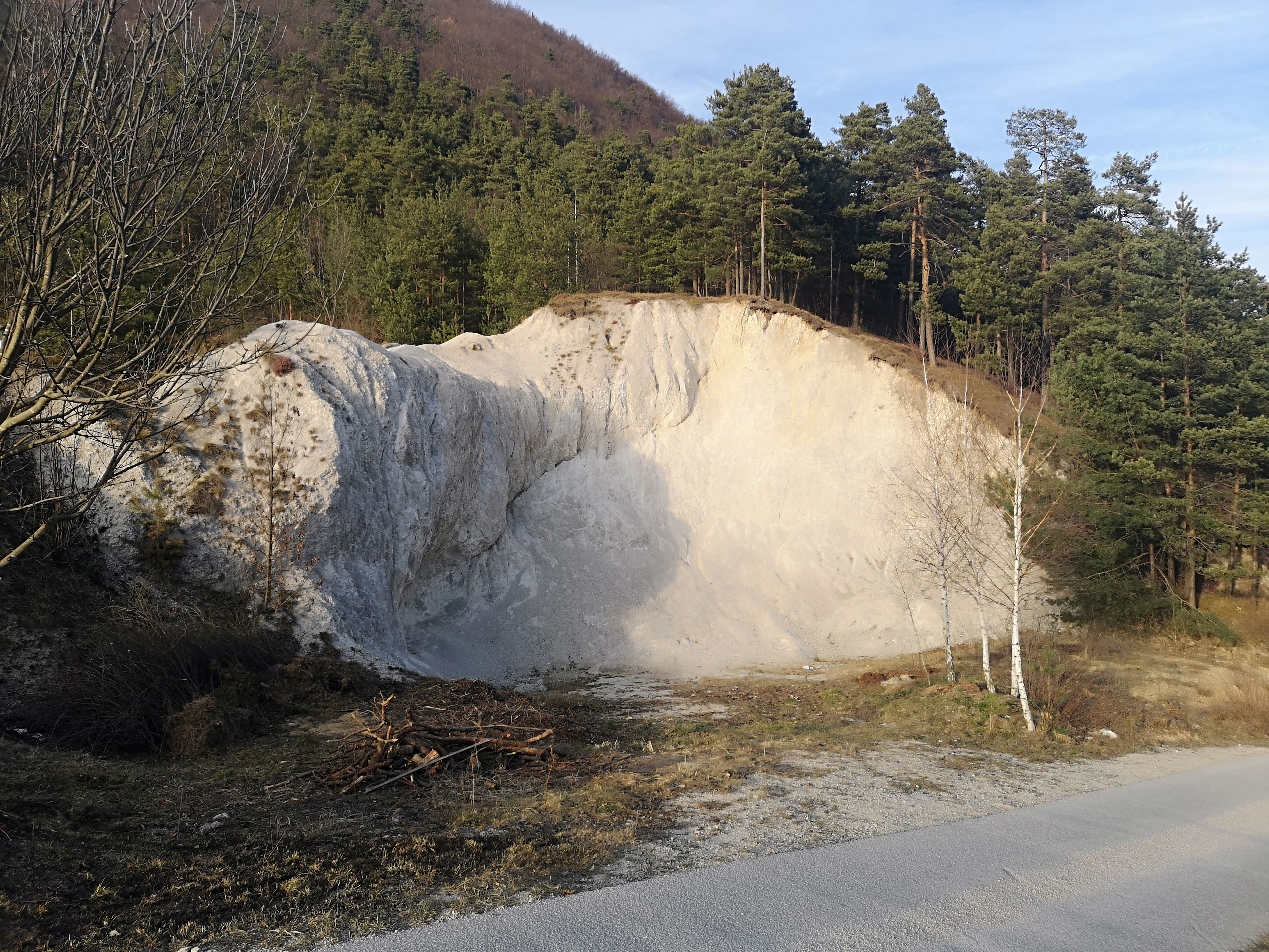 Quarry in Spodnje Stranice (Municipality of Vojnik).